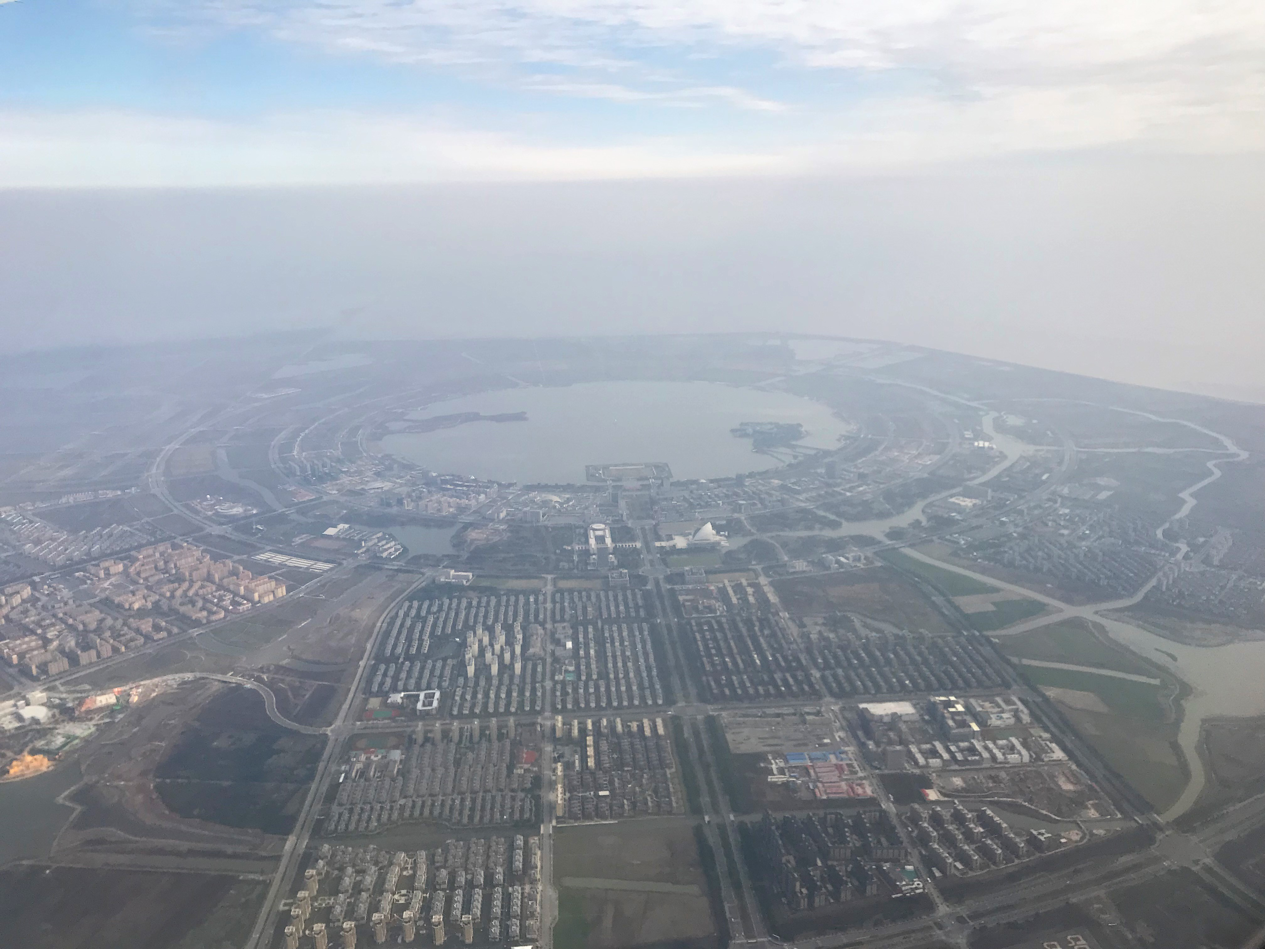 201812 Dishui Lake from 35L Final Approach